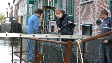 Charly Steiger with two co-workers setting up the pontoons with the lamps for "The Dijle Project" at Mechelen.